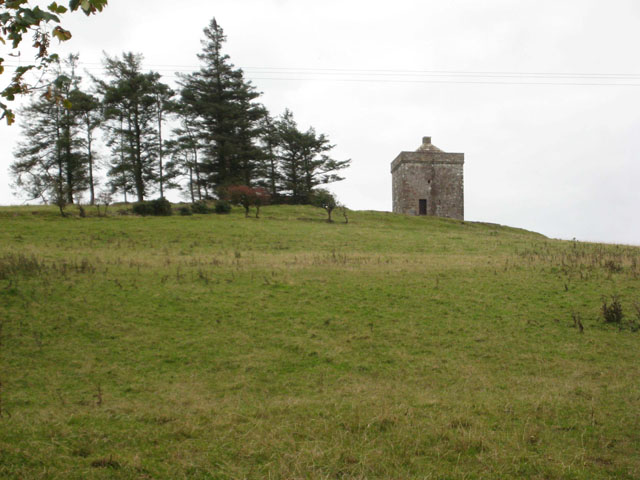 The Repentance Tower at Hoddom A prominent landmark, seen from the B725 Dalton to Ecclefechan road.